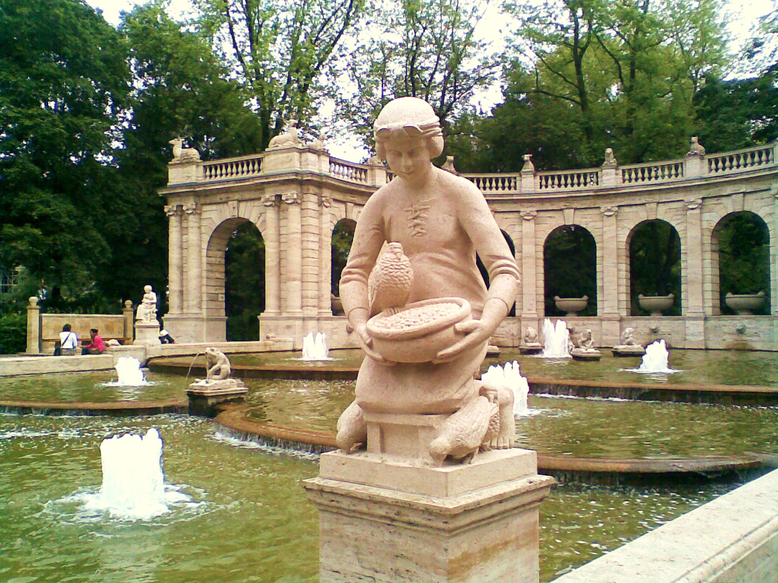 Friedrichshain locality of Berlin: Märchenbrunnen (fairy tale fountain) in the Volkspark Friedrichshain park, sculpture on the Brothers Grimm fairy tale «Cinderella» by Ignatius Taschner.